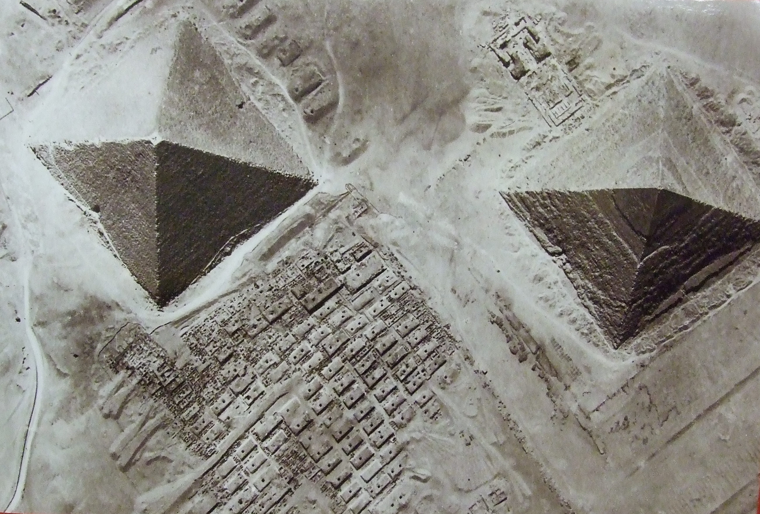 Náprstek Museum, National Museum in Prague